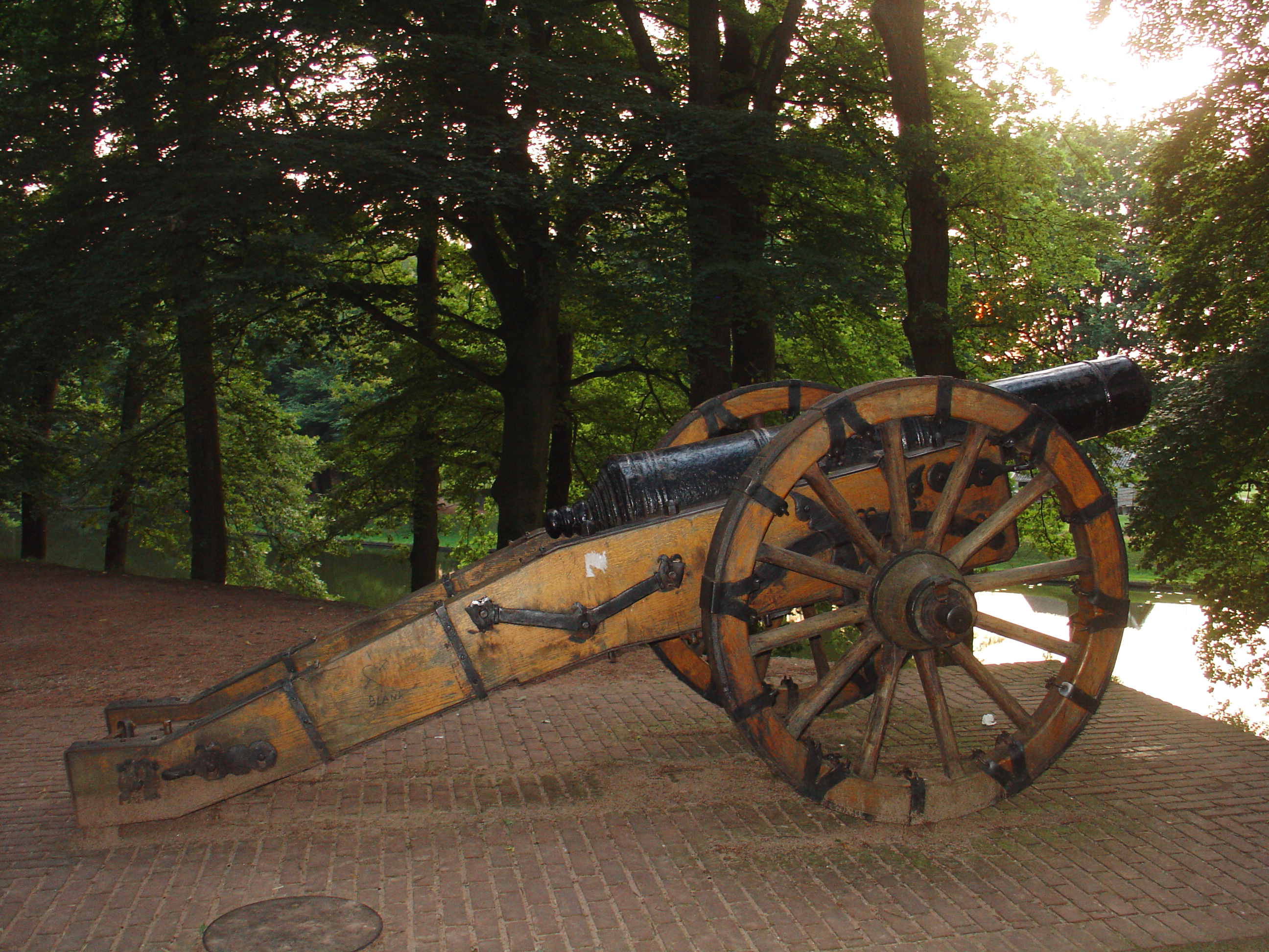 The original canon of Groenlo on a new gun-carriage (2004). This is the oldest known English demi-cannon perrier. This gun dates back to 1570 and was left behind after one of the sieges of Groenlo during the Eighty Years' War.